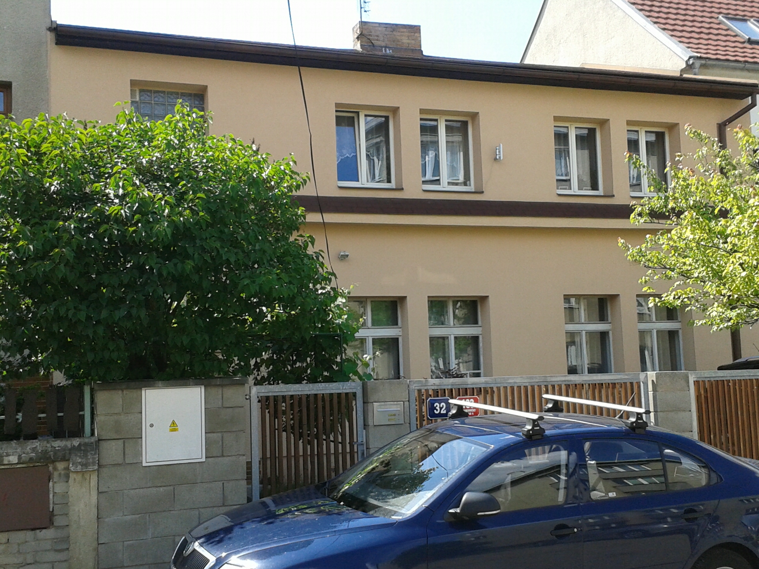 The current version (2014) of conspiratorial house (at address: Prague 4 - Hodkovičky, street: Nad lesem 133/32). From there (in the period from April 1940 to May 7, 1941) aired an illegal radio Sparta I encrypted messages from the Protectorate of Bohemia and Moravia to London.